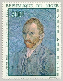 1968 Niger stamp 200f Van Gogh